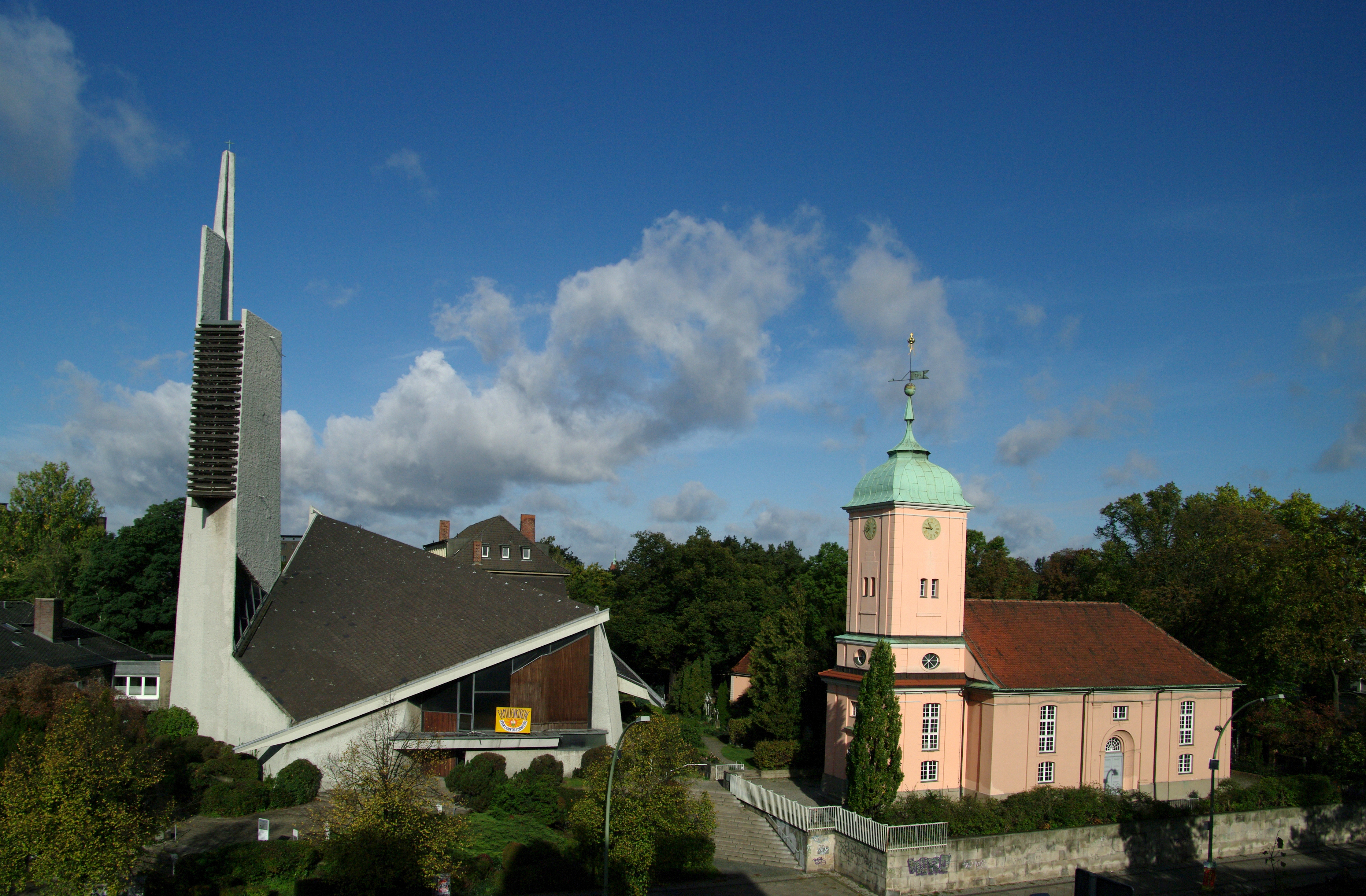 Berlin-Schöneberg, 18th century old village church and 1950s Paul-Gerhadt-Church right next to each other